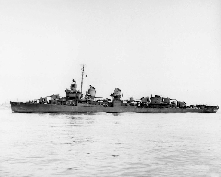 The U.S. Navy destroyer USS Jenkins (DD-447) off the Mare Island Naval Shipyard, California (USA), on 15 January 1944. She was in overhaul at the yard from 15 December 1943 until 18 January 1944.